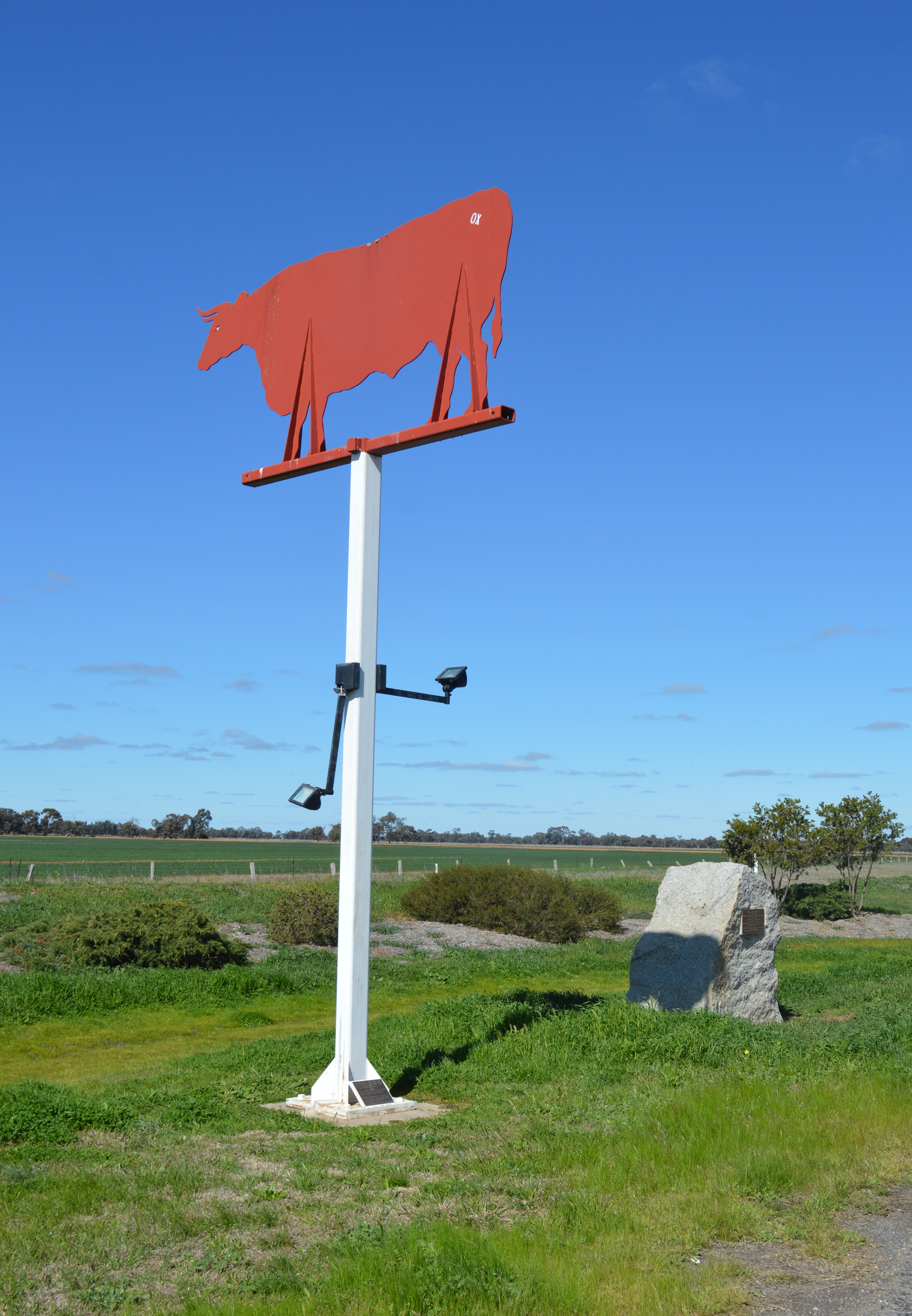 The Durham Ox silhouette monument at Durham Ox, Victoria